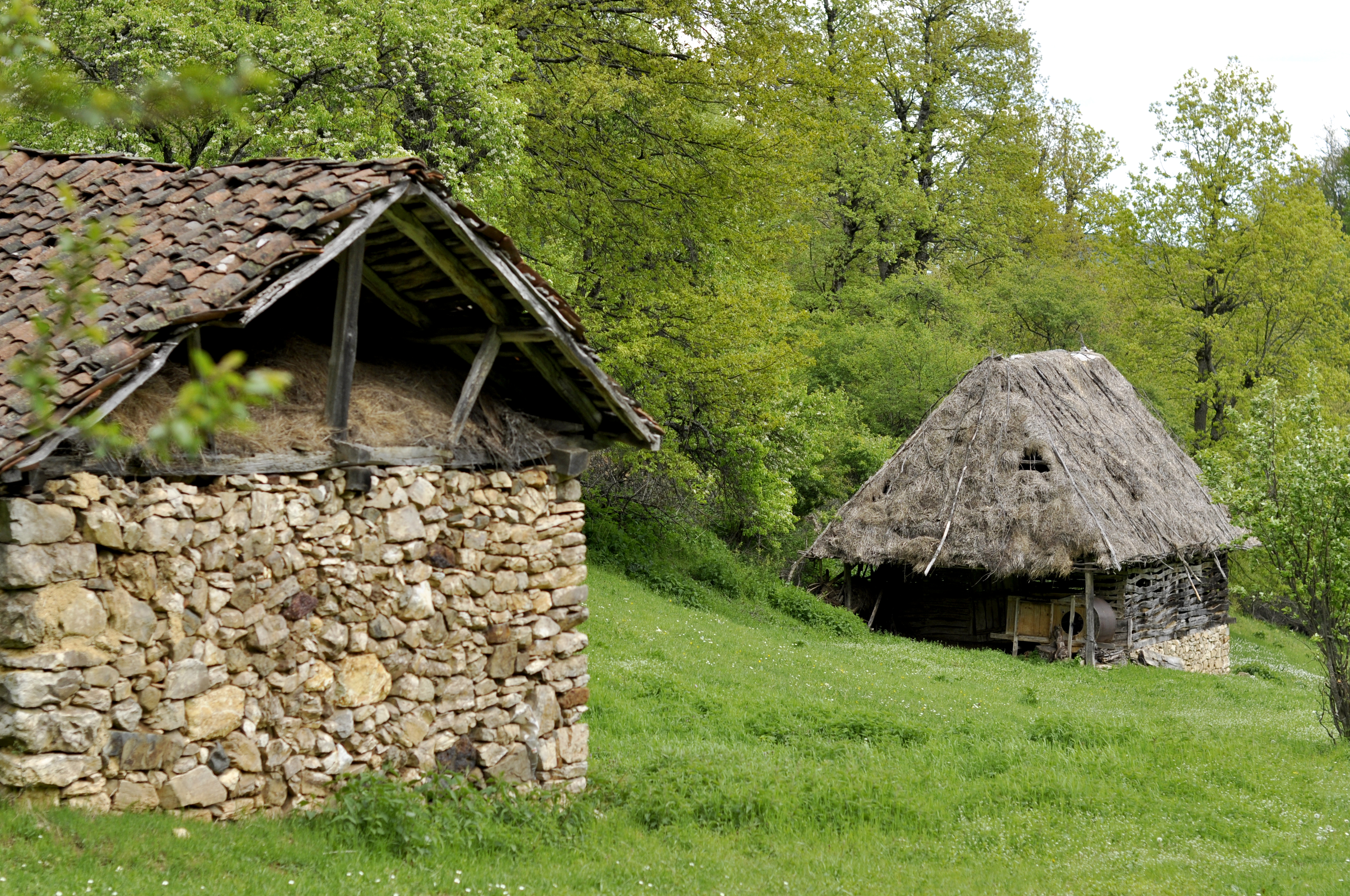 Jasenovik Komuna e Novobërdës (2)